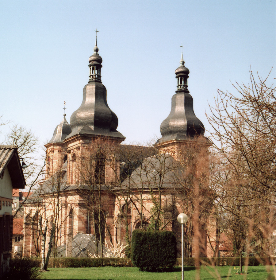 Chevet Abbatiale